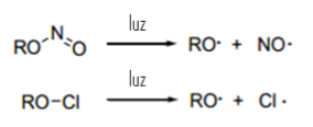 dsdfsa